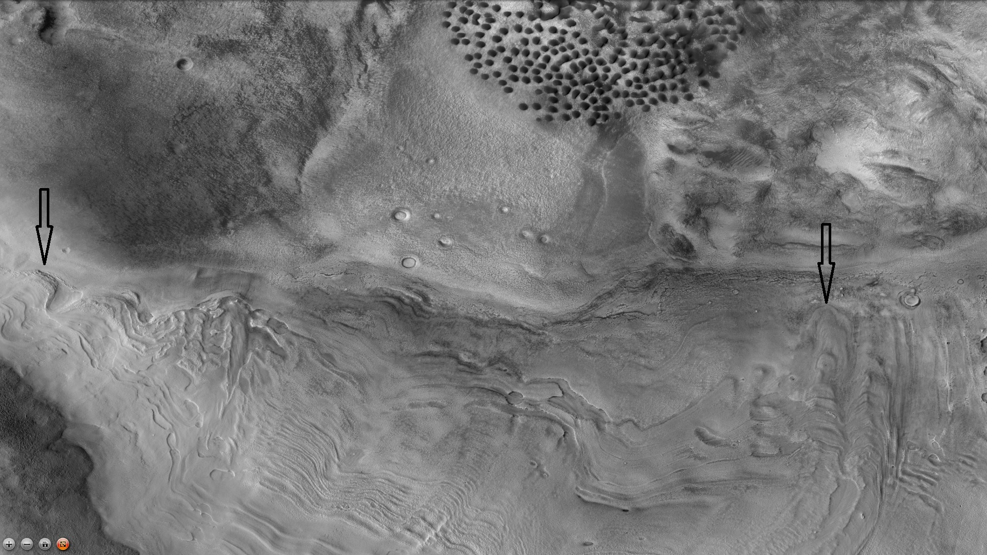 Renaudot Crater showing dunes, as seen by ctx